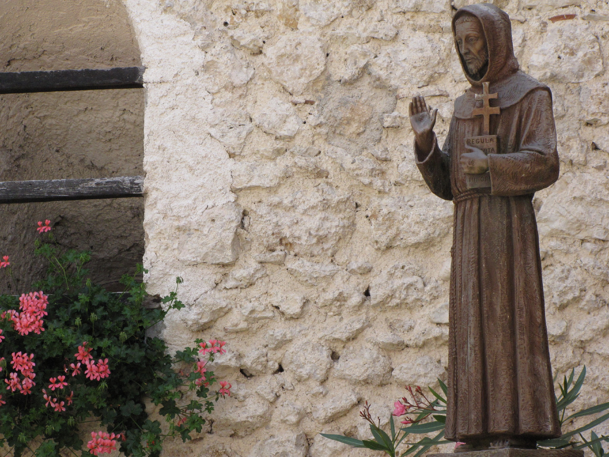 Franciscan sanctuary of Fonte Colombo in Rieti (Lazio, Italy)